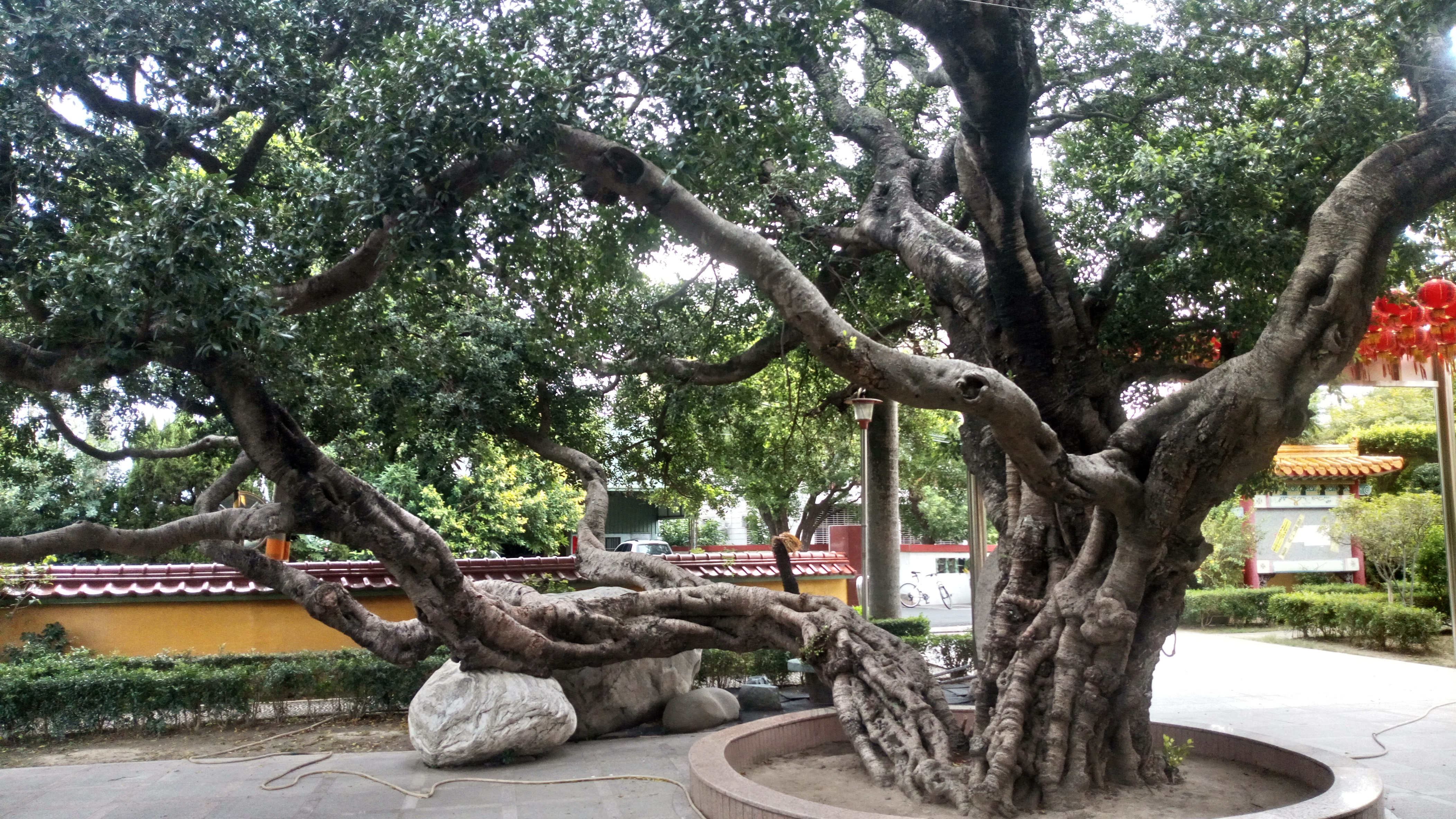 台中市南屯區鎮平福德祠夫妻樹之公樹